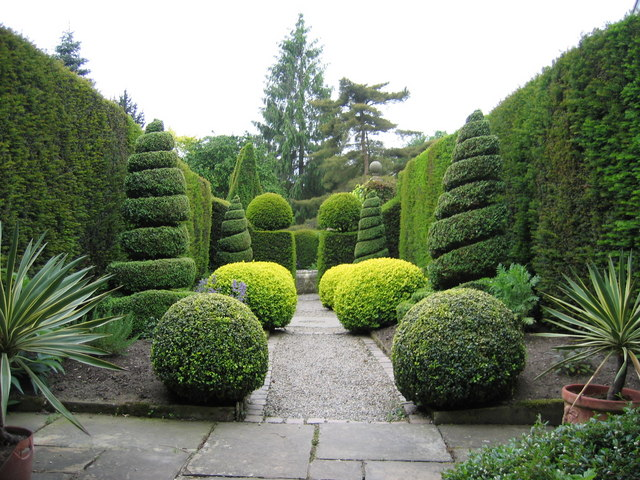 Herb Garden, York Gate Garden Owned by the charity Perennial,this is one of 14 areas within the garden.